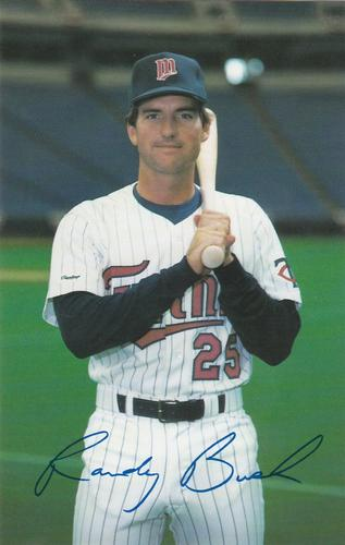 Professional baseball player Randy Bush